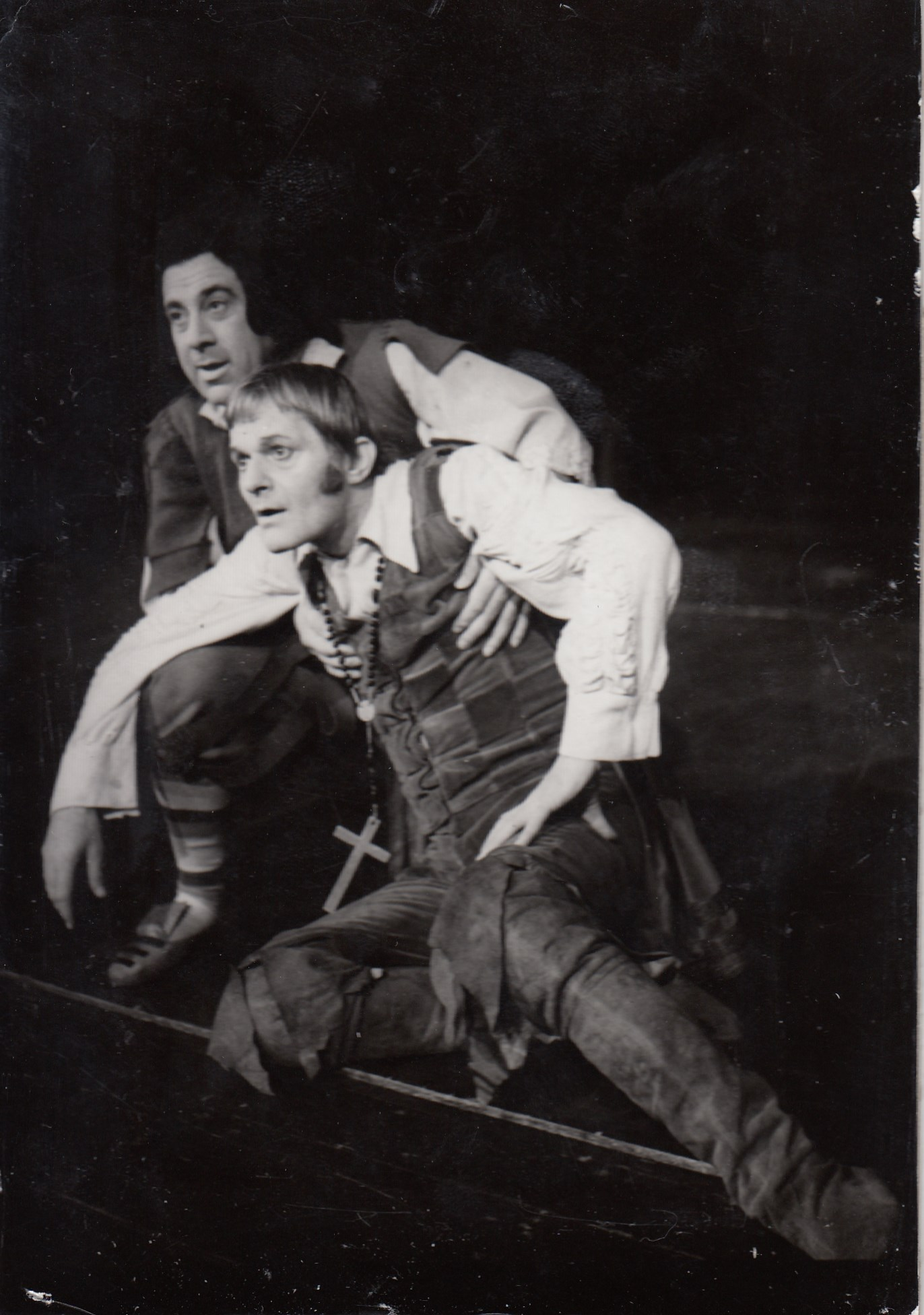 Mucsi Sándor és Darvas Iván a La Mancha lovagja című darabban